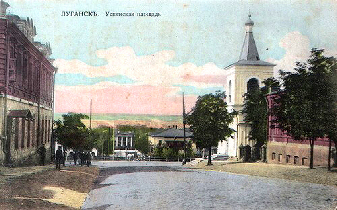 Assumption in Lugansk area.